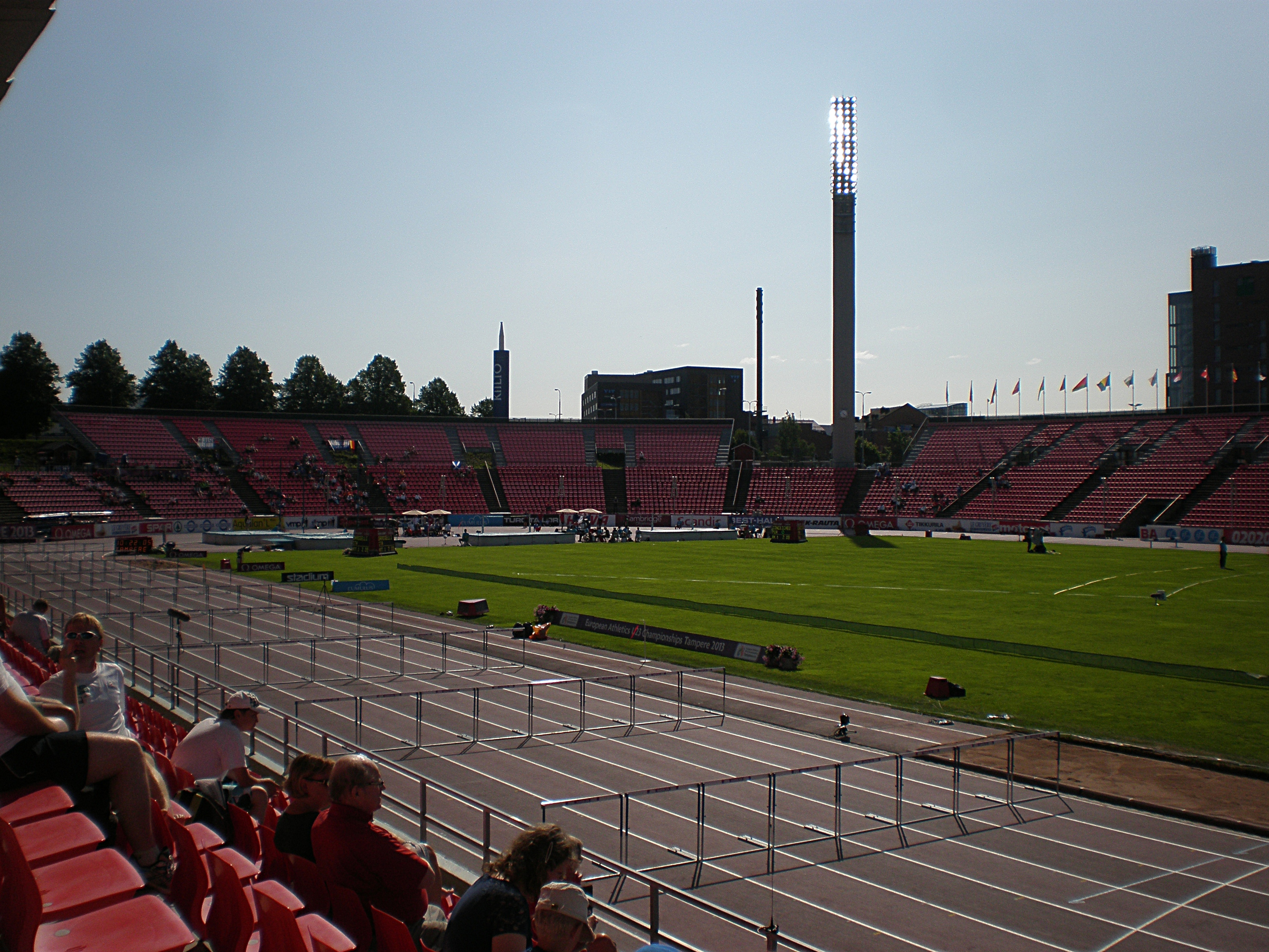 Tampere Stadium at U23 European Championships